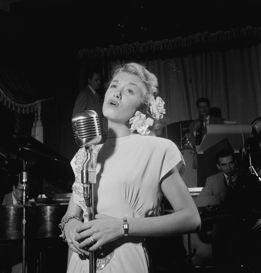 Portrait of June Christy and Red Rodney, Club Troubadour, New York, N.Y., ca. Sept. 1947.